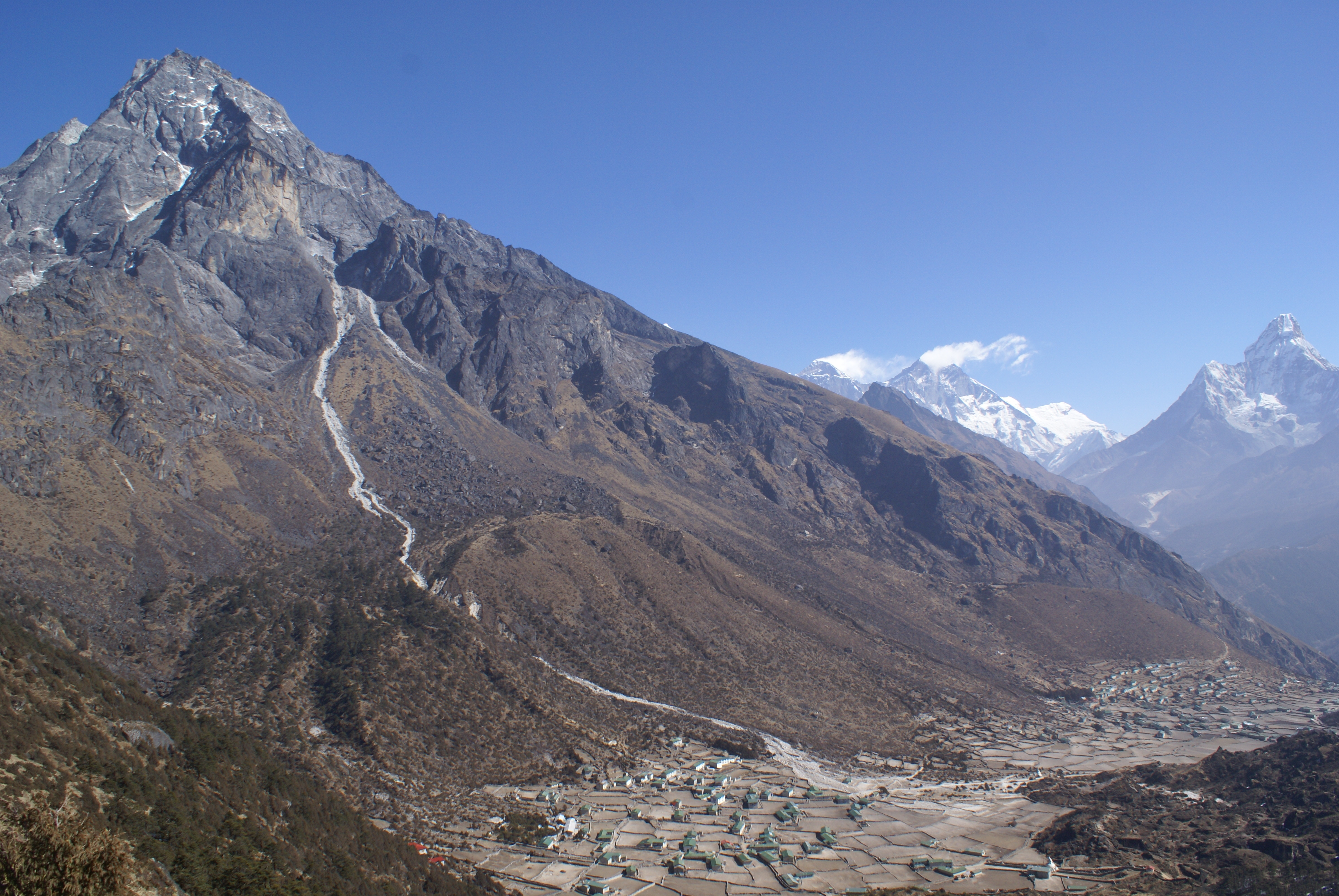 Khumbila, with an overview over Khumjung and Kunde villages, and Mount Everest, Lhotse and Ama Dablam peaks in the background